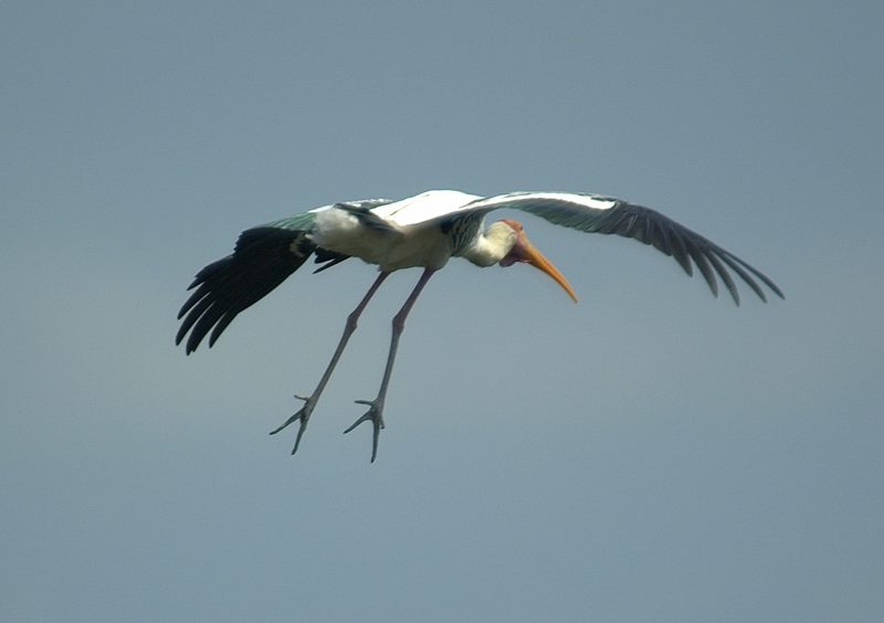 Mycteria leucocephala.Painted Stork